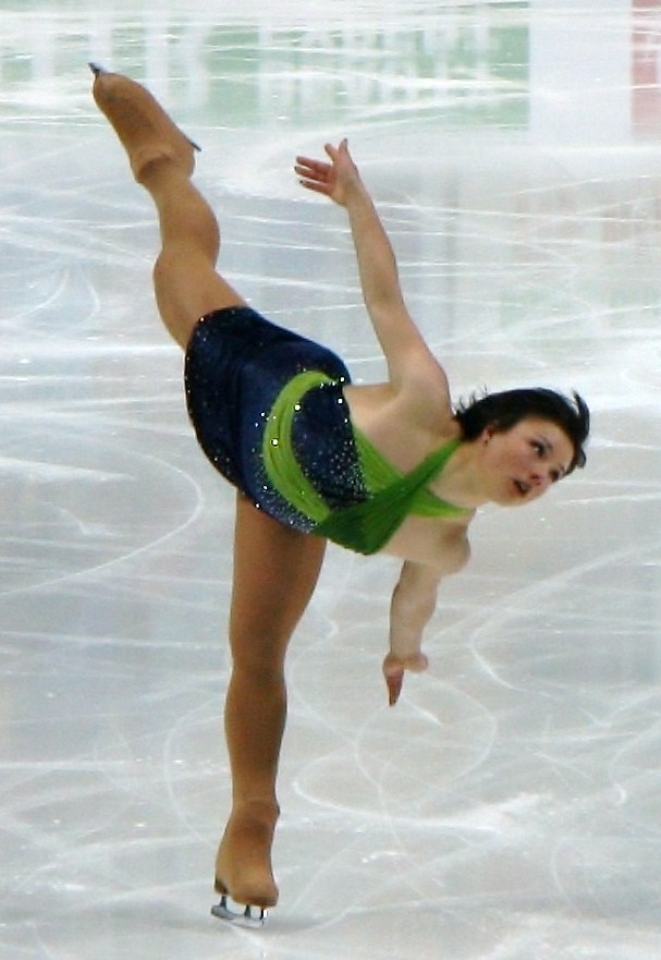 Bettina Heim at the 2011 World Figure Skating Championships